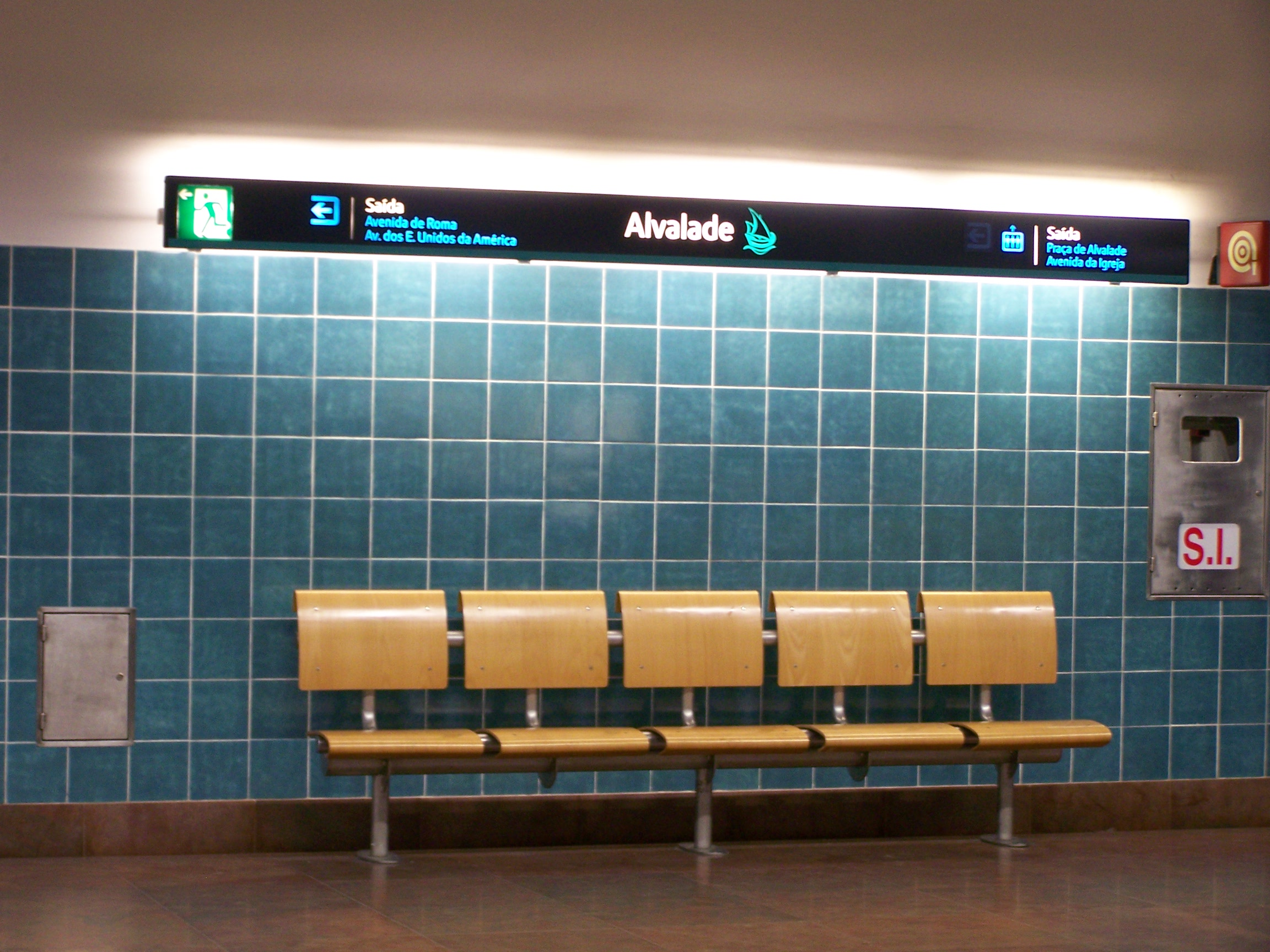 A recently renovated bench at Alvalade station, linha verde.